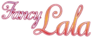 Reproduction of Mahō no stage Fancy Lala logo in Italian